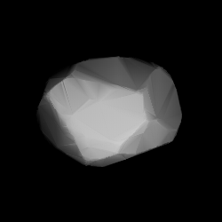 3D convex shape model of 1793 Zoya, computed using light curve inversion techniques. J. Hanuš, J. Ďurech, M. Brož, B. D. Warner (June 2011). "A study of asteroid pole-latitude distribution based on an extended set of shape models derived by the lightcurve inversion method". Astronomy and Astrophysics 530: A134. ISSN 0004-6361. arXiv